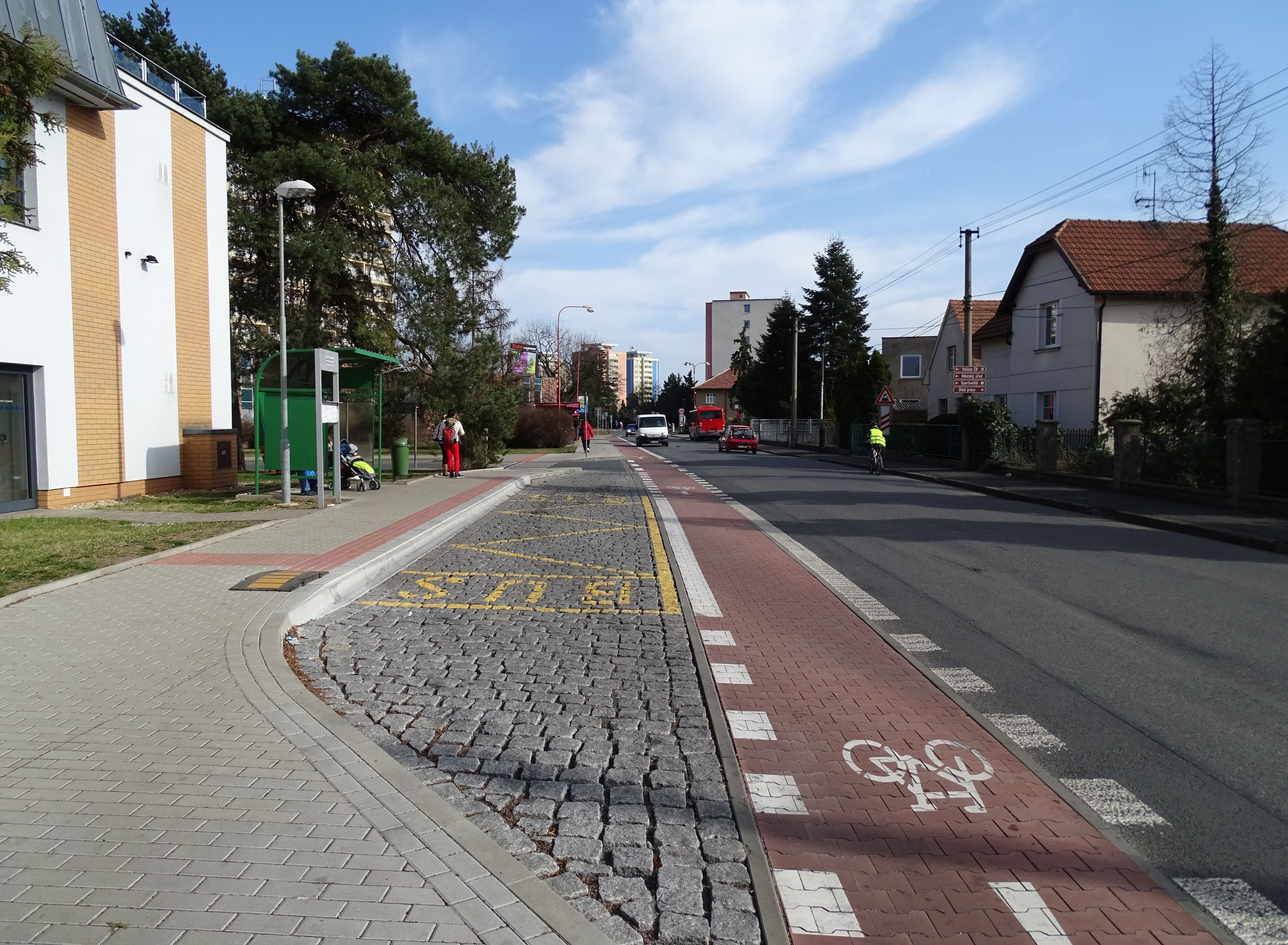 Neratovice, Mělník District, Central Bohemian Region, Czech Republic. Vojtěšská, bus stop Dům kultury.